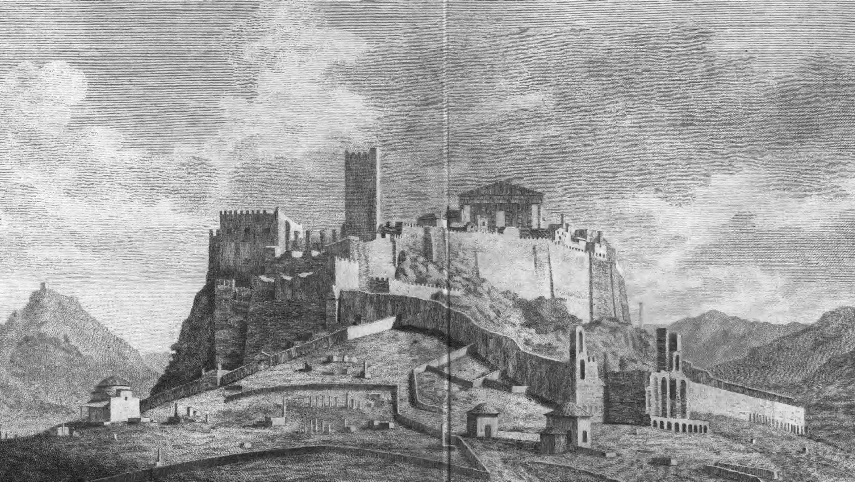 engraving by James Stuard with a general view of Acropolis in the late 18h century